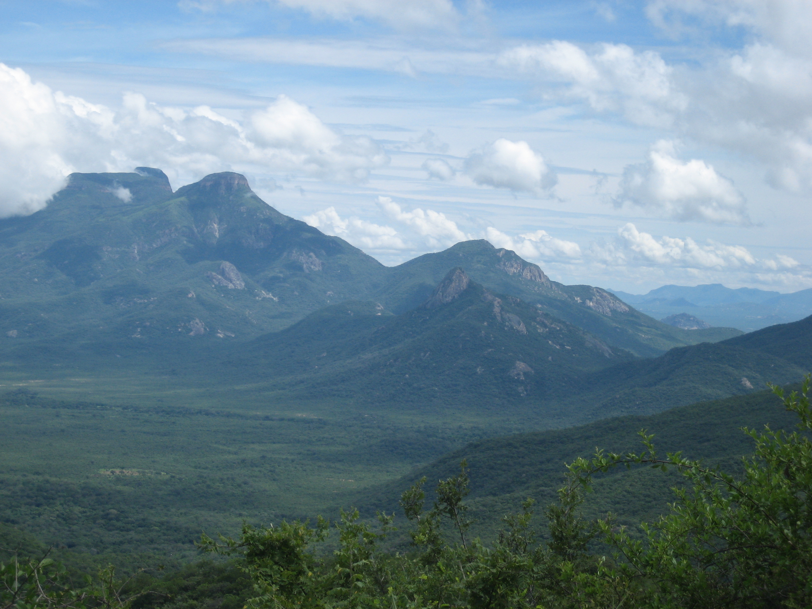 Stunning views when driving from Lubango to Namibe in the South of Angola at Serra da Leba